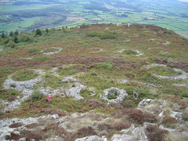 Garn Boduan, near to Nefyn, Gwynedd, Great Britain. Ancient stone hut circles on the shoulder of Garn Boduan.